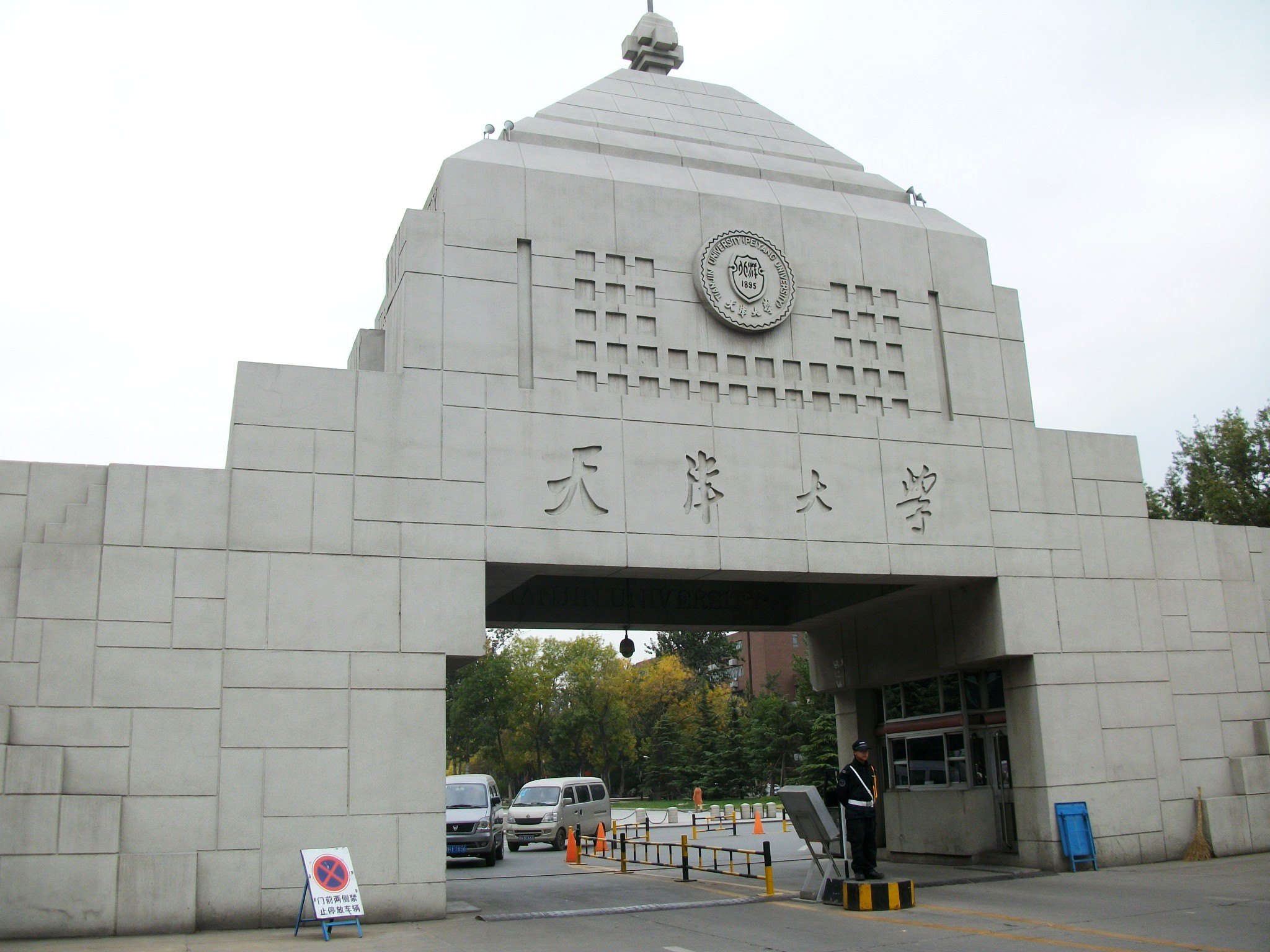 The Gate of Tianjin University on Weijin Road.